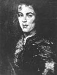 Johann Konrad Ammann alias John Conrade Amman, Medicus, born 1669 in Schaffhausen, died 1724 in Leiden